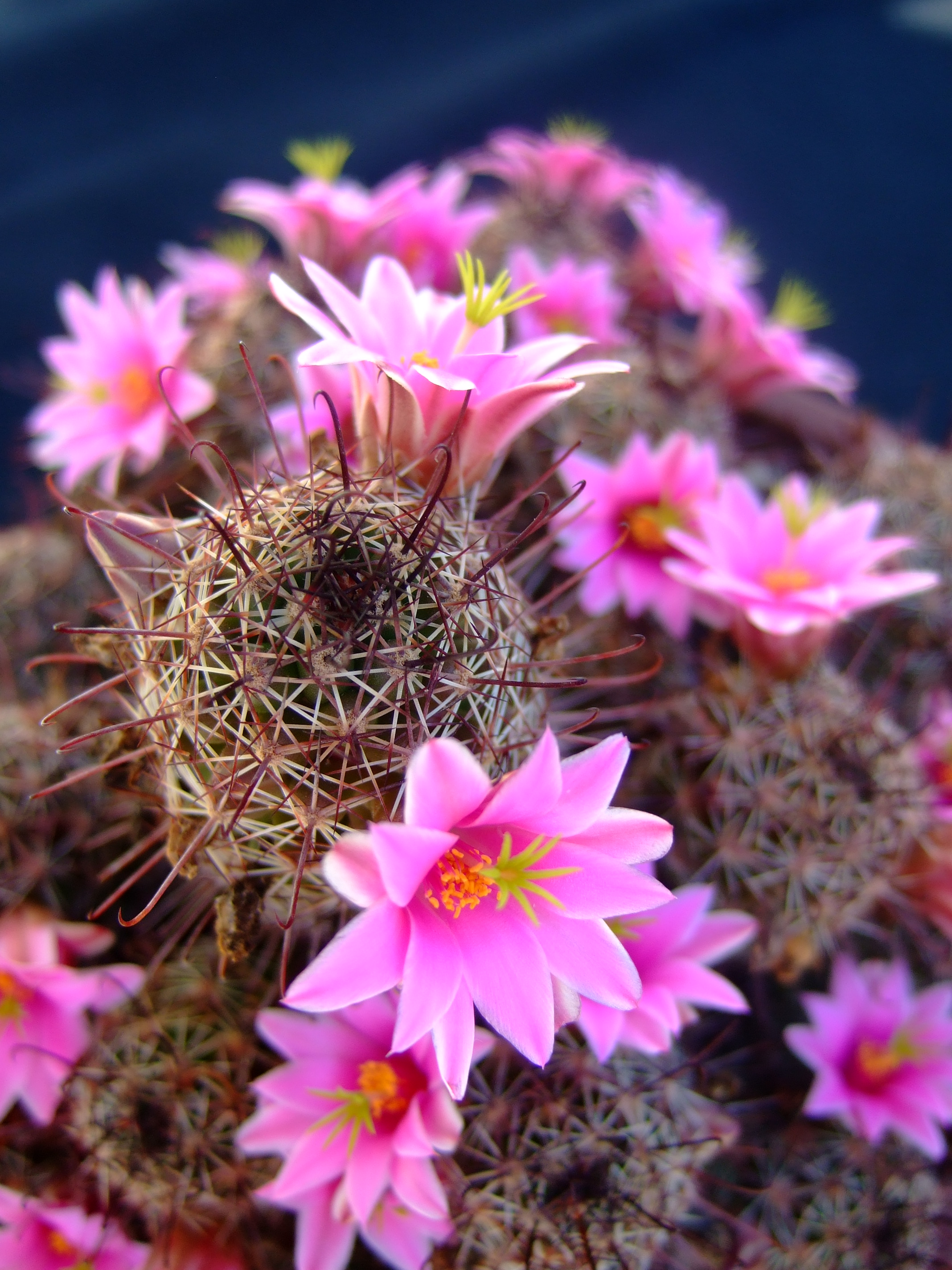 Mammillaria fraileana